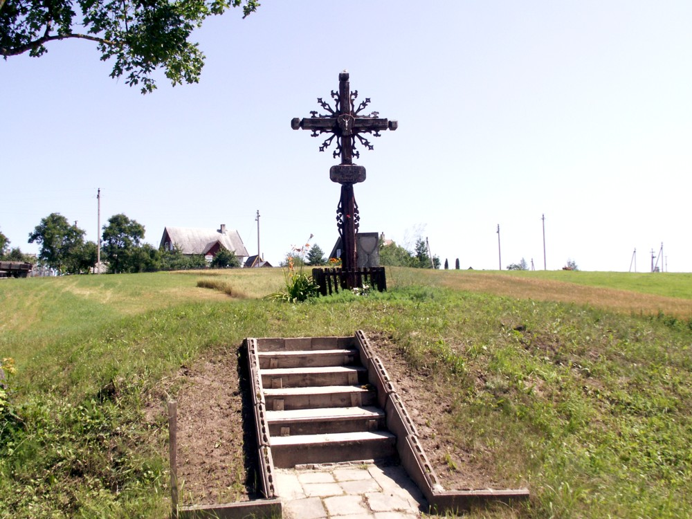 Gilvyčiai, Šiauliai district, Lithuania